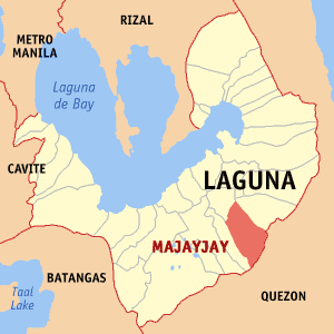 Locator map of Majayjay in Laguna, Philippines.